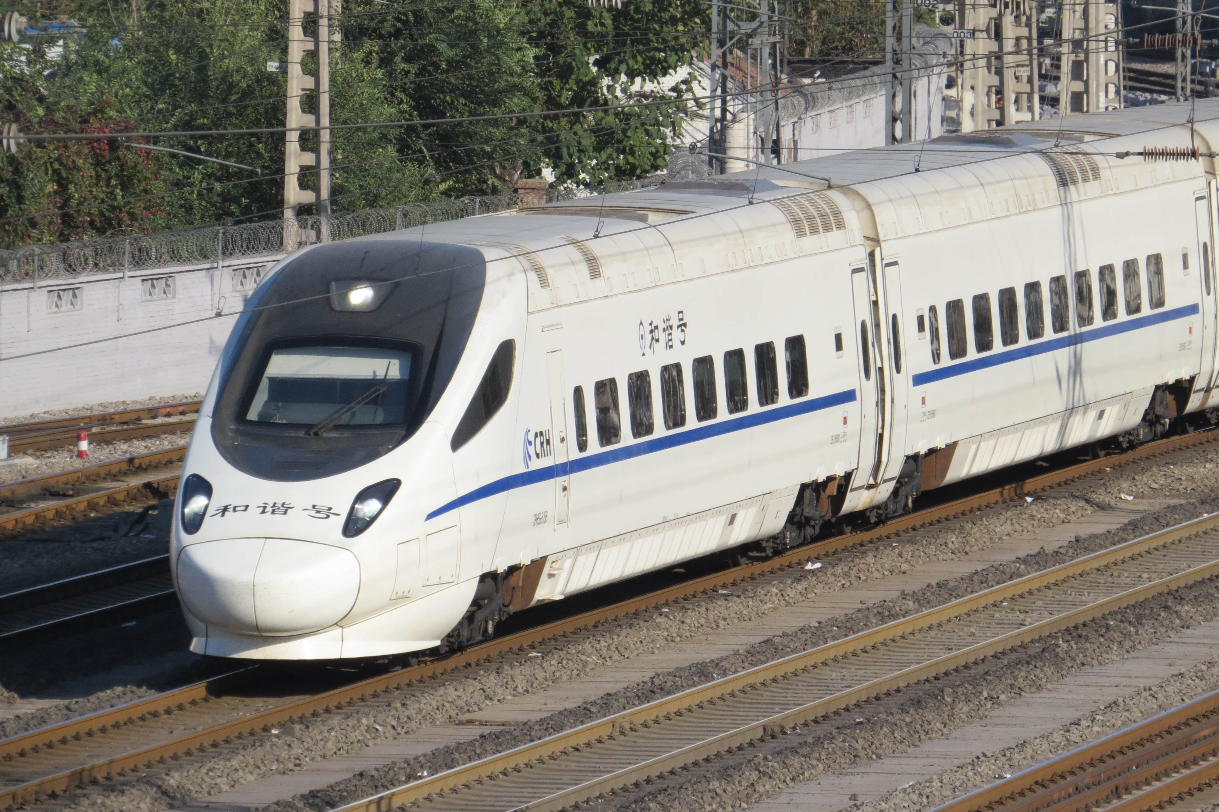 D28 from Harbin West. I noticed it is a CRH5G instead of a CRH5A.